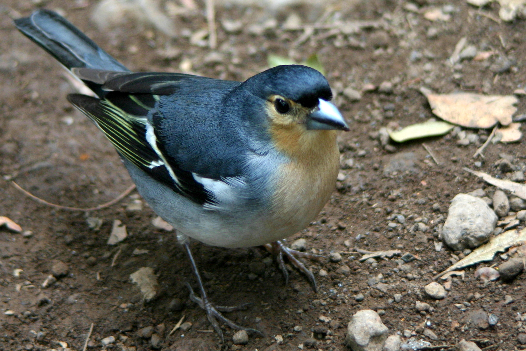 Fringilla coelebs palmae, La Palma, Canary Islands